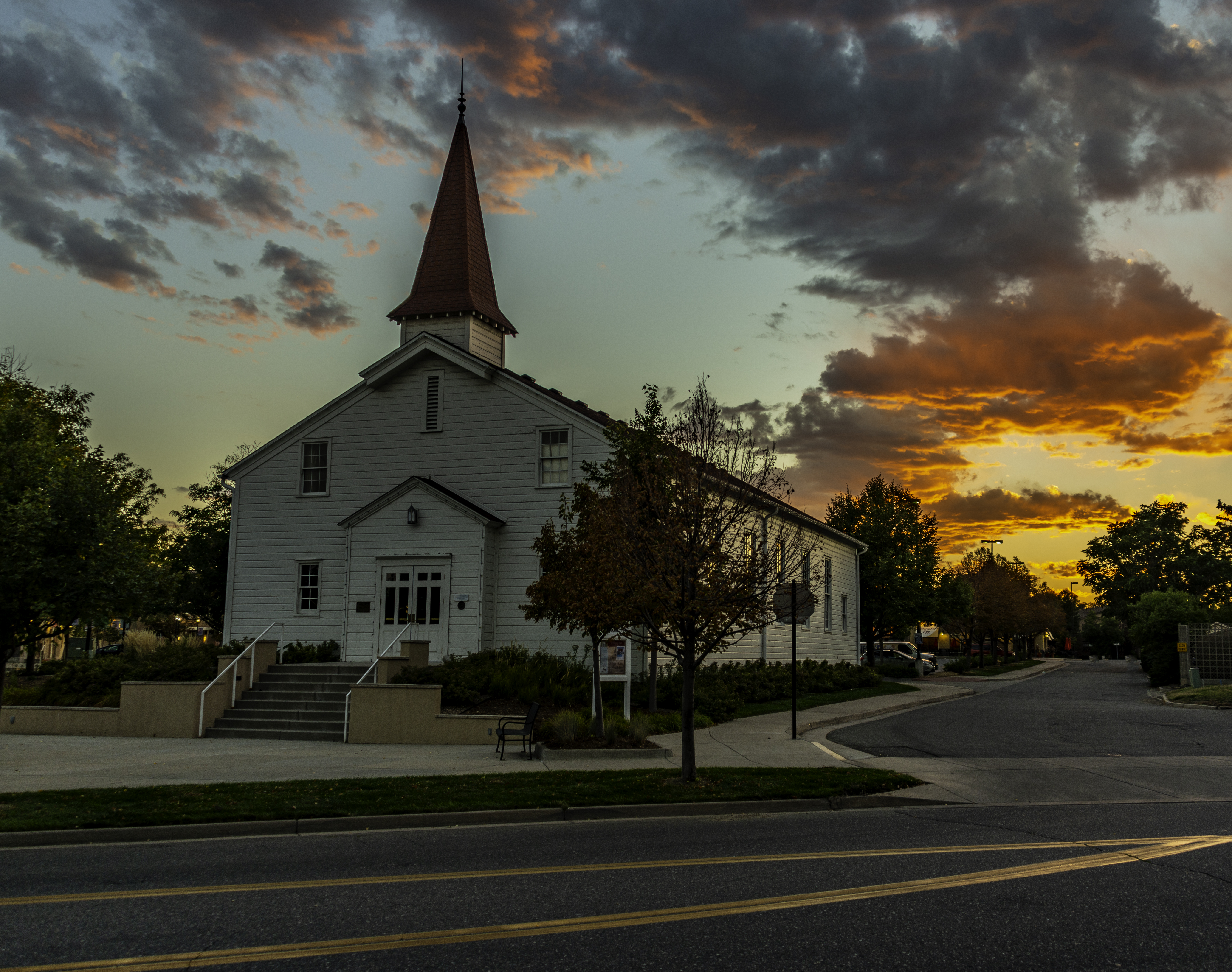 Eisenhower Chapel (Chapel #1) at sunset September 18,2018